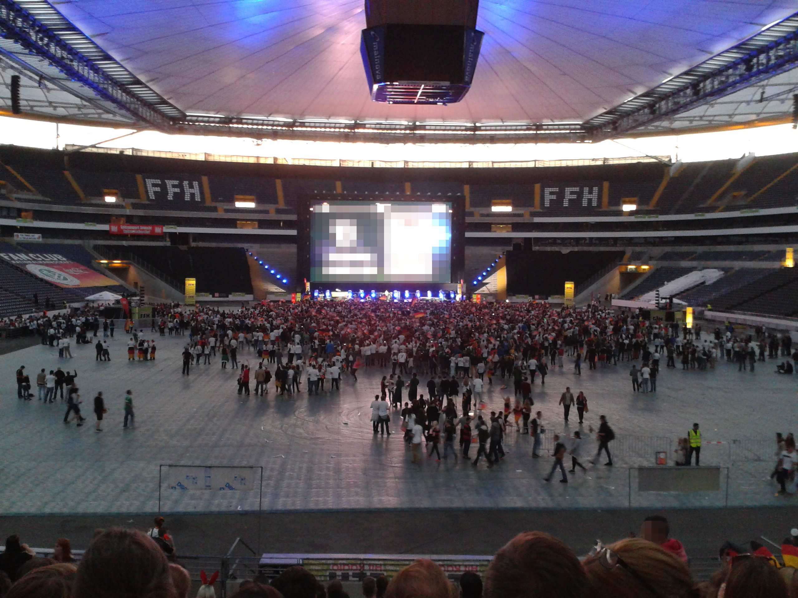 Public screening during the football worldcup 2014 in the Commerzbank-Arena, Frankfurt, Germany.